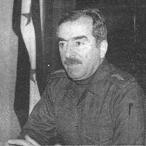 Sirwan al-Jaf (b. 1938 or 1940), Kurdish politician, 1986-1989 head of the pro-iraqi regional government in the Kurdish autonomous region in Northern Iraq